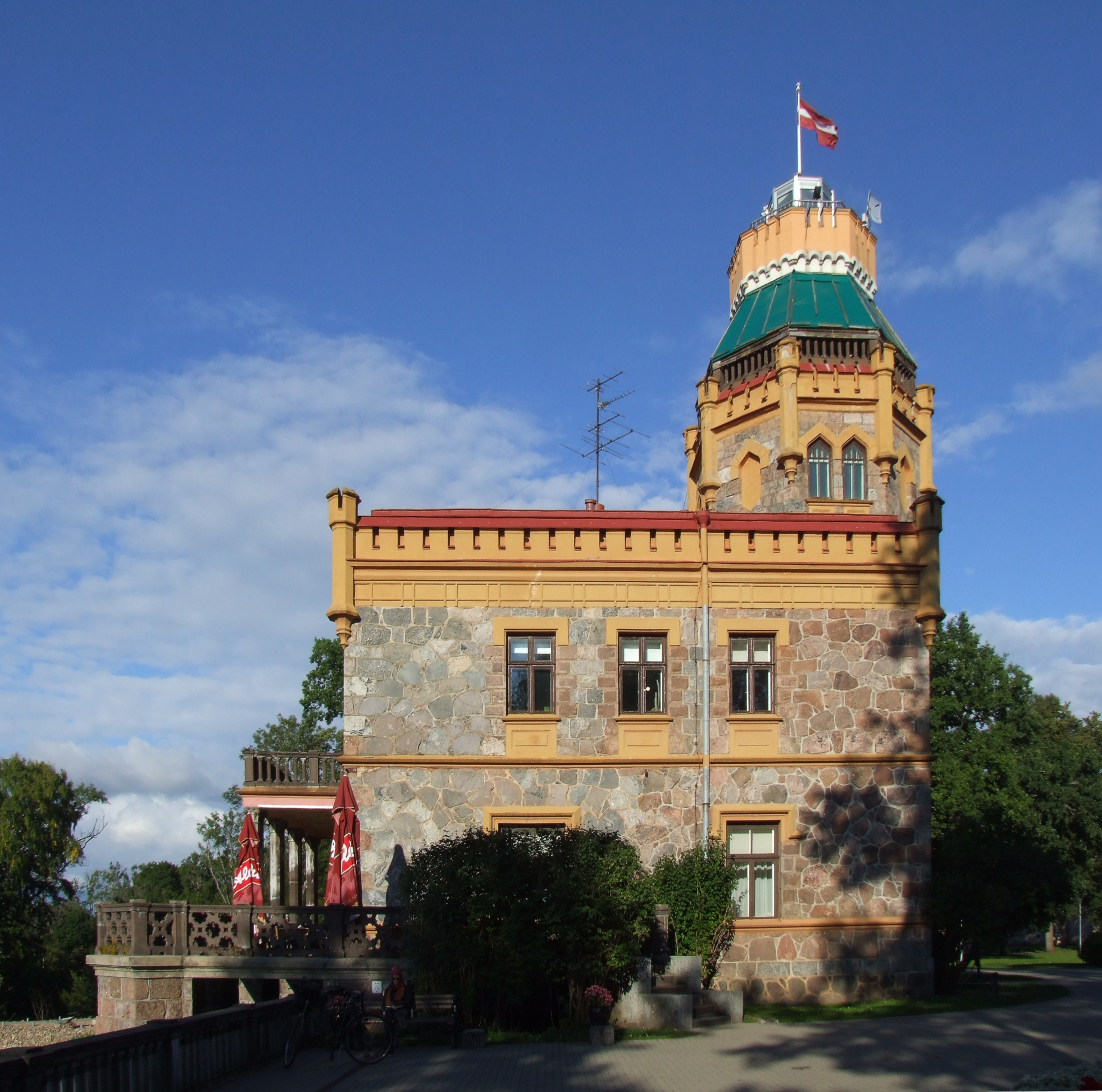 Sigulda New Castle